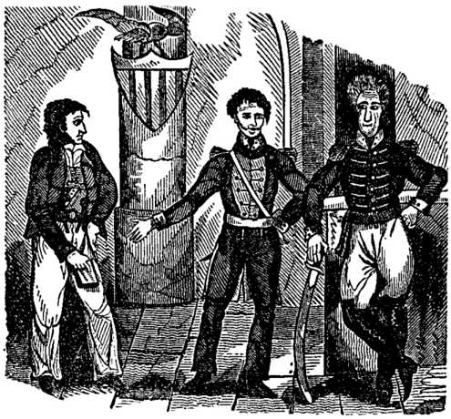 Privateer Jean Lafitte, Louisiana Governor William C. C. Claiborne, and General Andrew Jackson, meeting in New Orleans to plan defence from the British invasion, late 1814